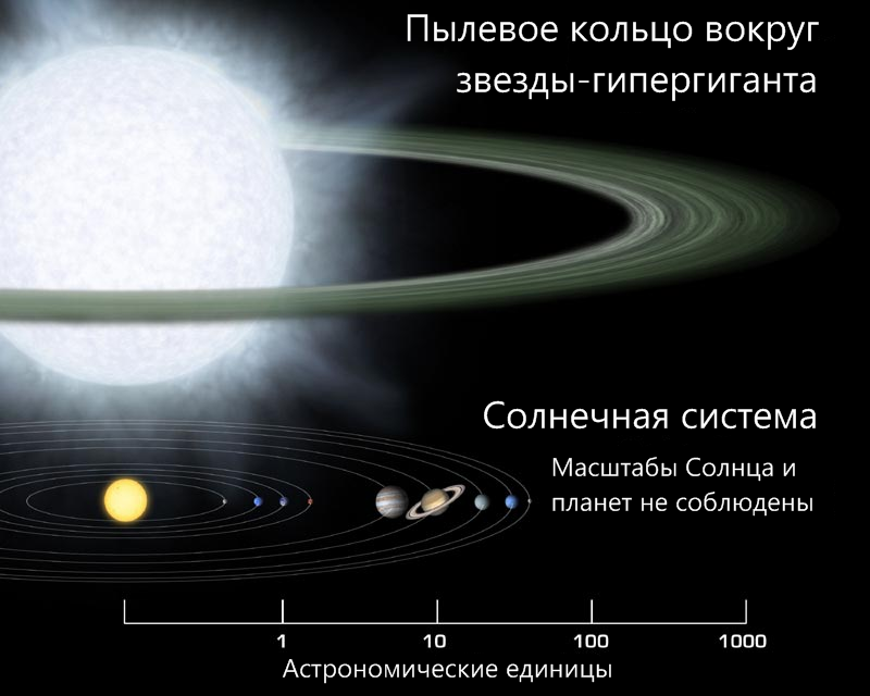 A hypergiant star and its proplyd compared to the solar system